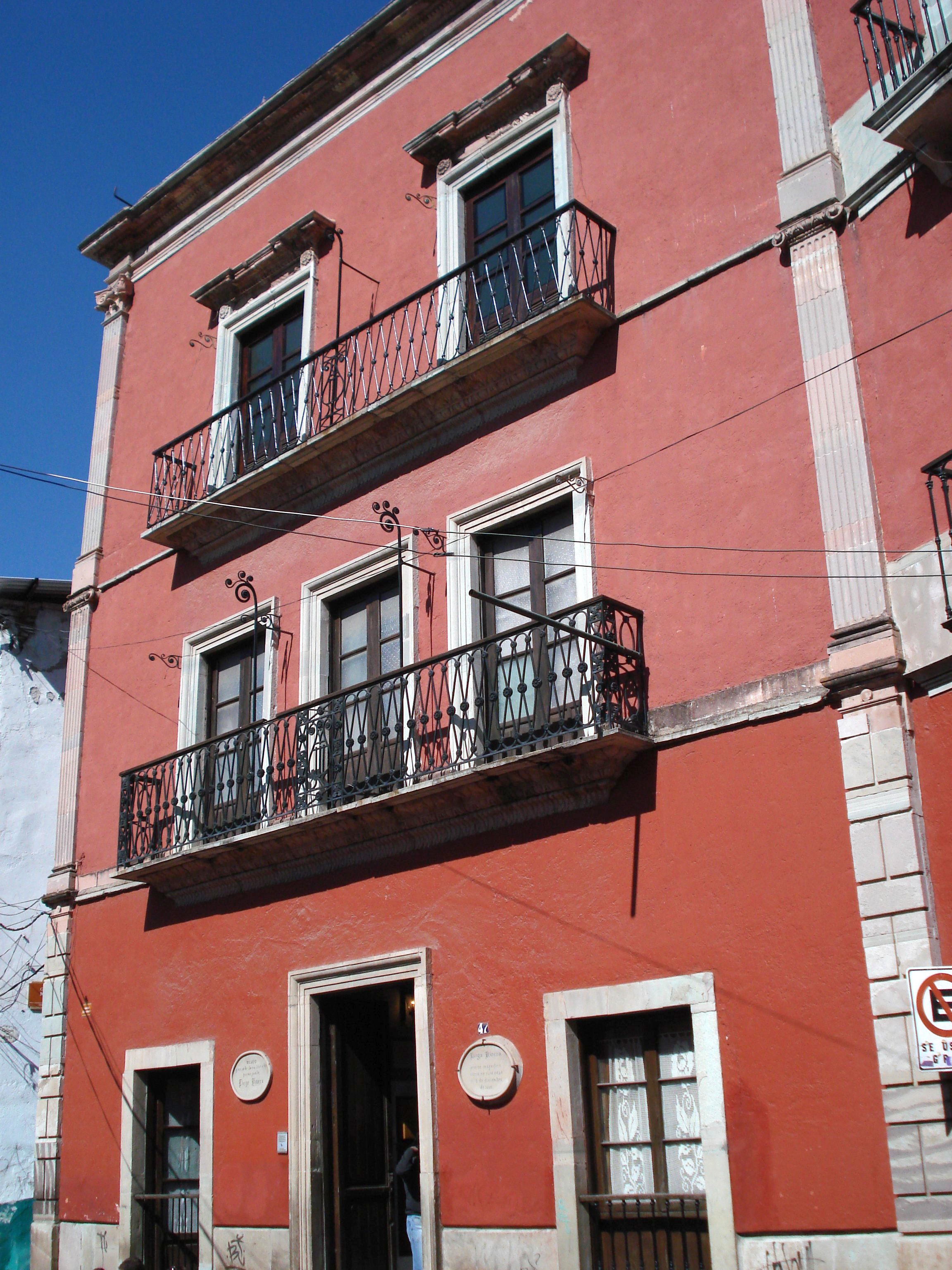 The house in Guanajuato (Mexico) in which Diego Rivera was born. Today it's a museum.